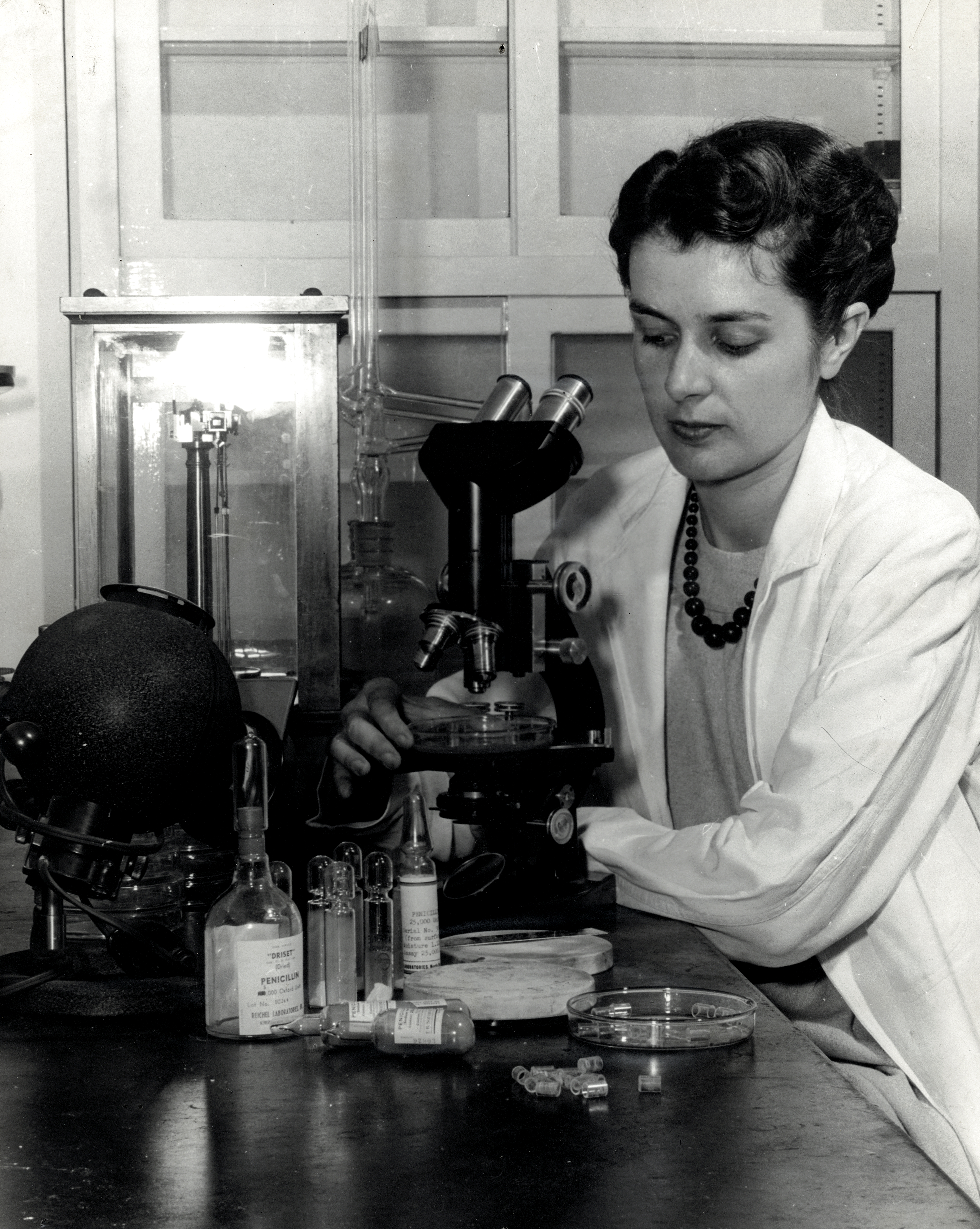 An FDA analyst at work certifying early samples of penicillin. FDA played an important role as the U. S. worked with Britain to develop a practical means of penicillin production during WWII, testing the drug before its release for wartime use. For more information about FDA history visit